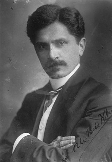 Mirza Ali Kuli Khan, the Persian charge d’affaires in the United States